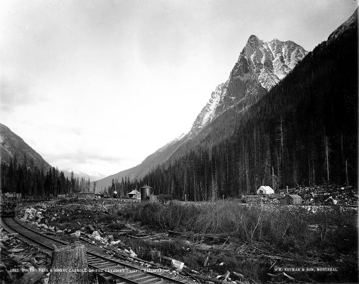 Photograph, Rogers Pass and Mount Carroll on the C.P.R., BC, 1887, William McFarlane Notman, Silver salts, frosting on glass - Gelatin dry plate process - 20 x 25 cm